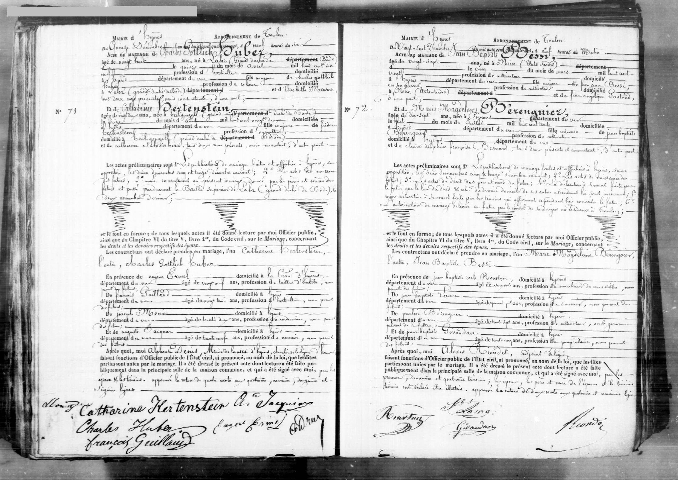 Registre des mariages de l'état civil de Hyères